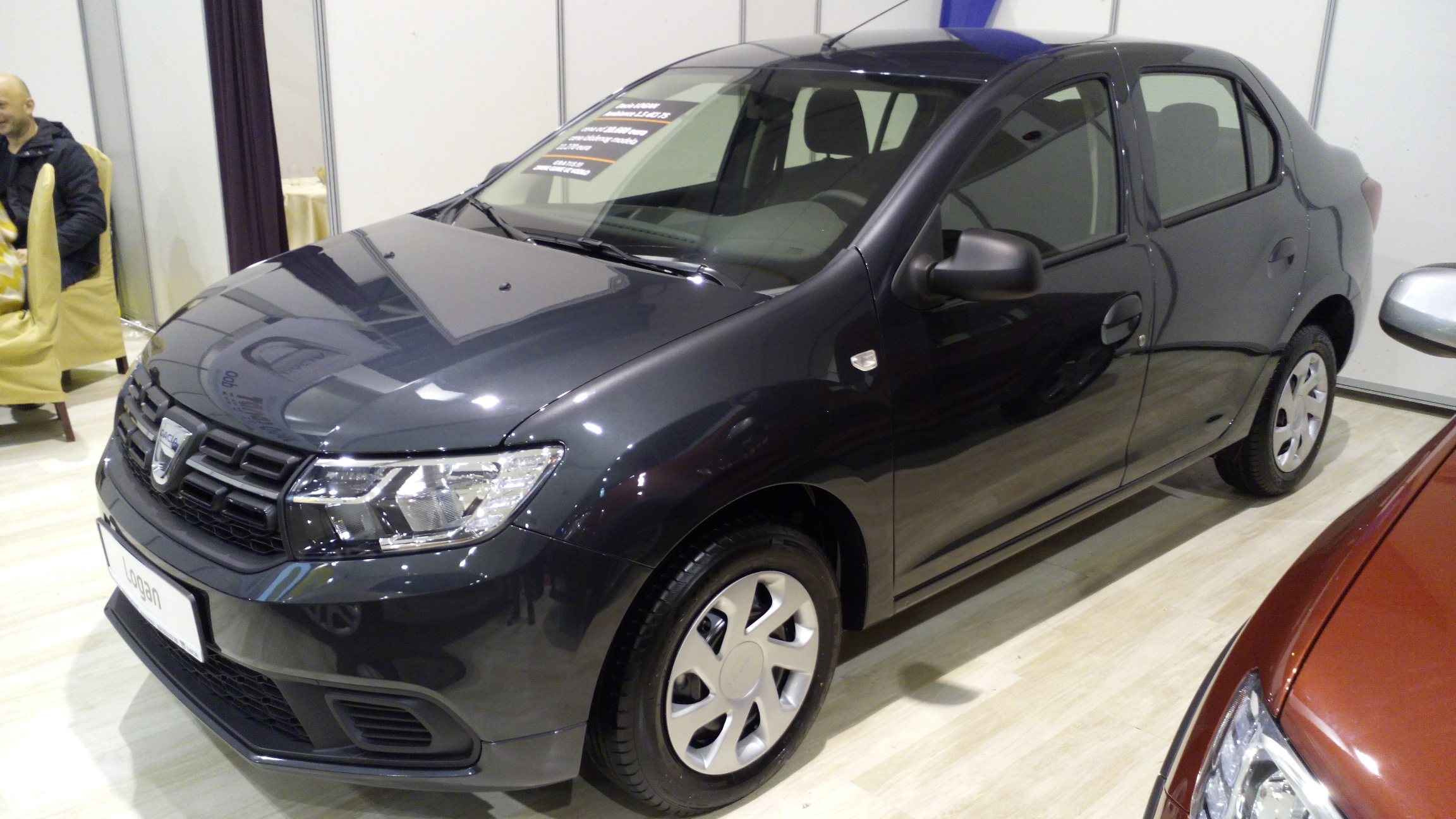 2017 Dacia Logan Facelift at Auto Expo Kragujevac 2017